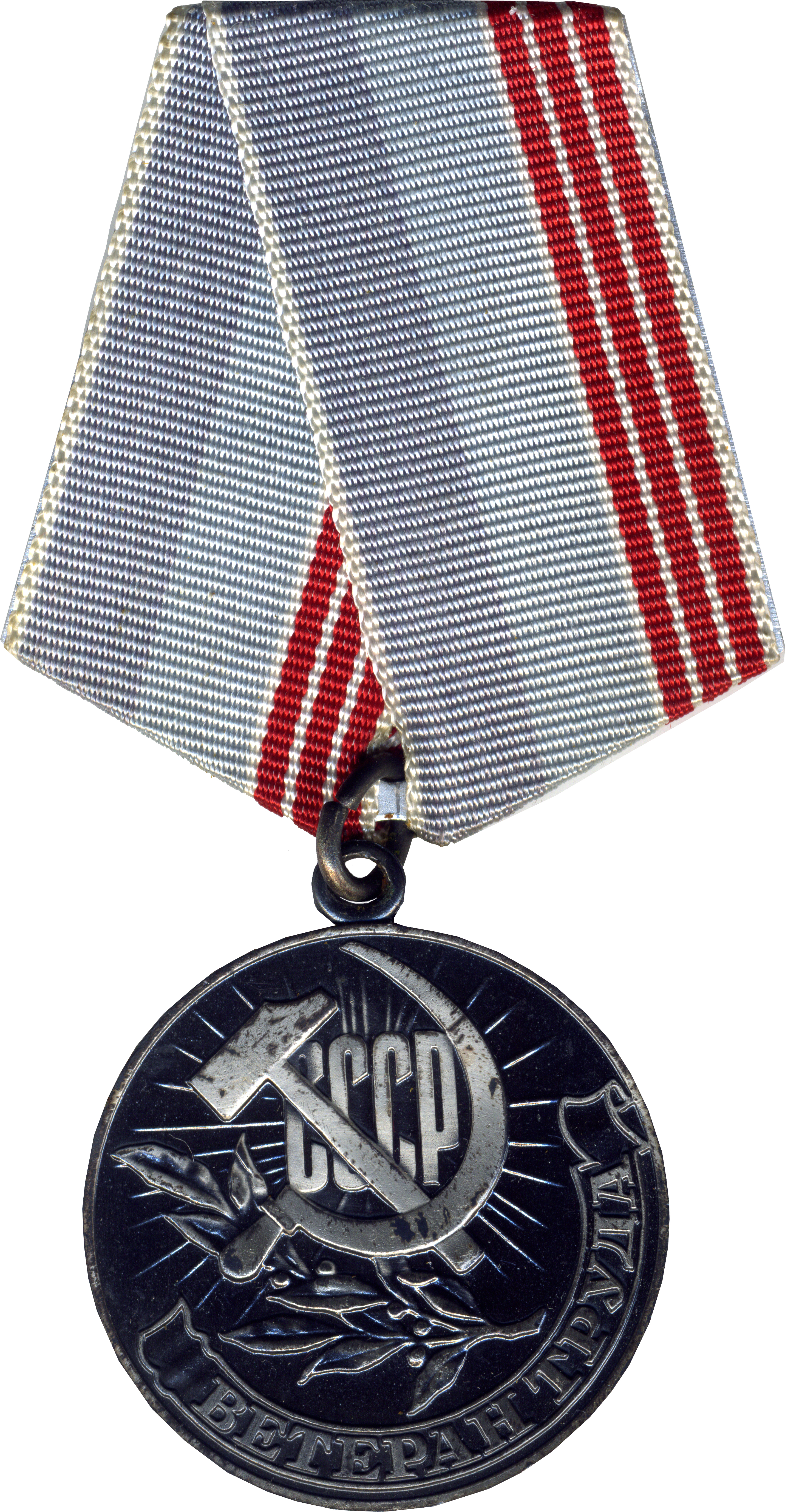 Medal «Veteran of Labour»